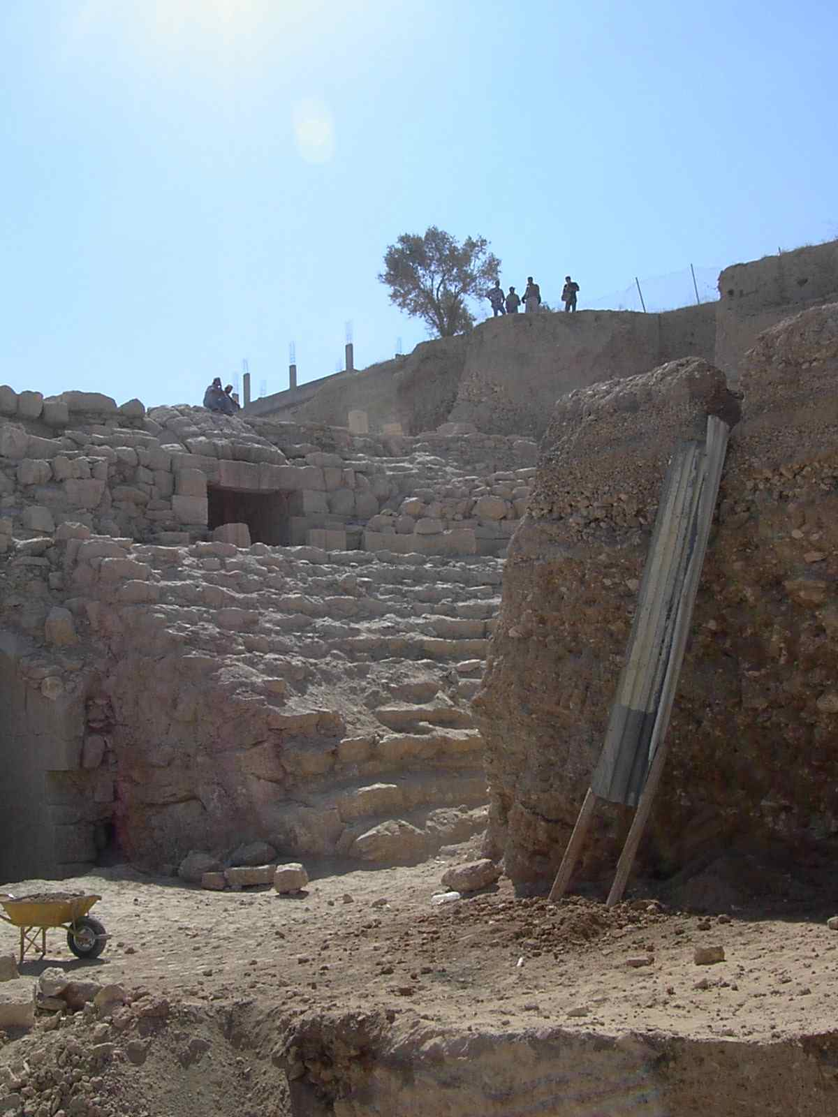 Ruins in Beit Ras, Capolitas.